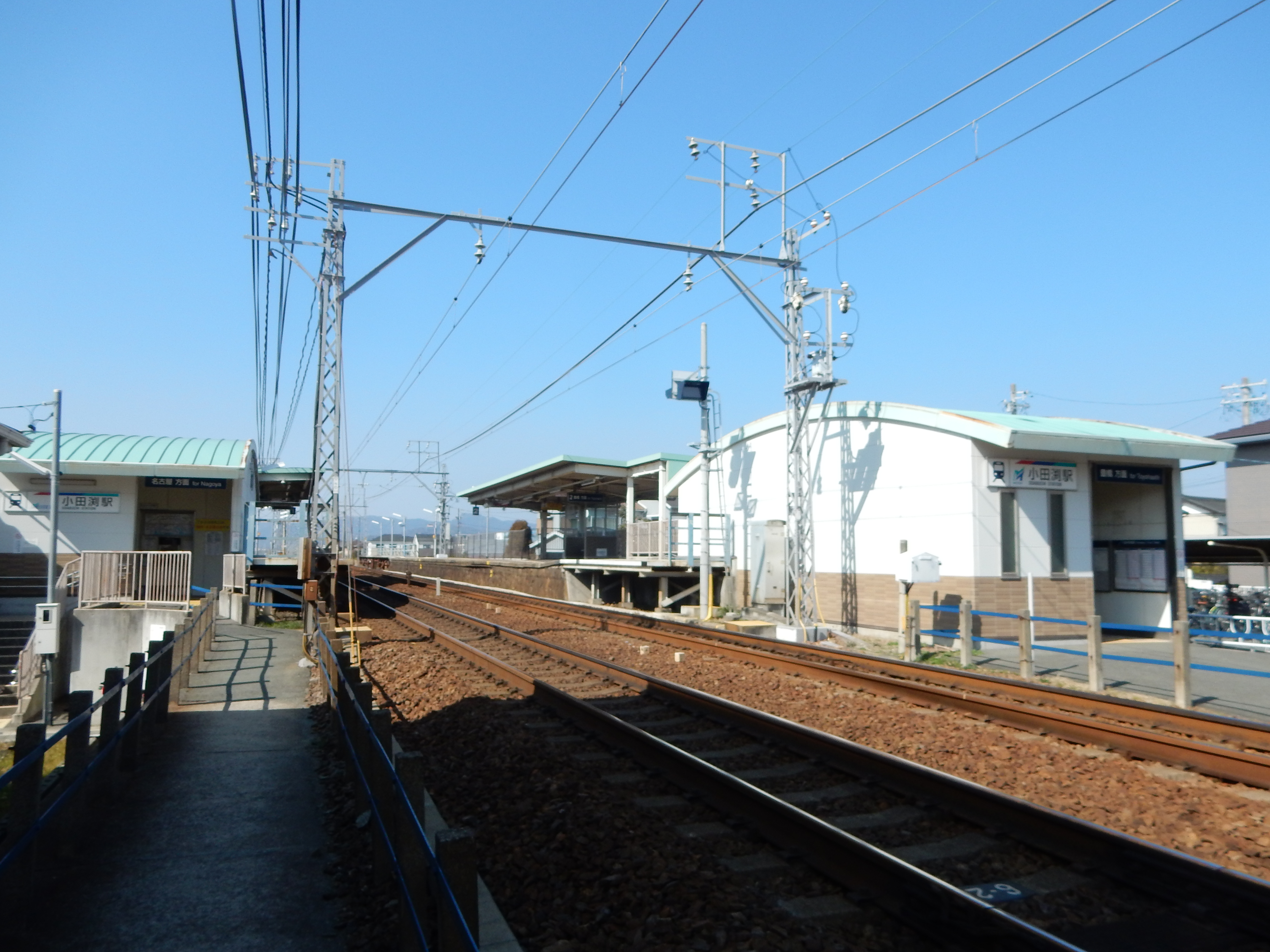 Odabuchi station, located at Utari, Odabuchi, Toyokawa, Aichi, Japan